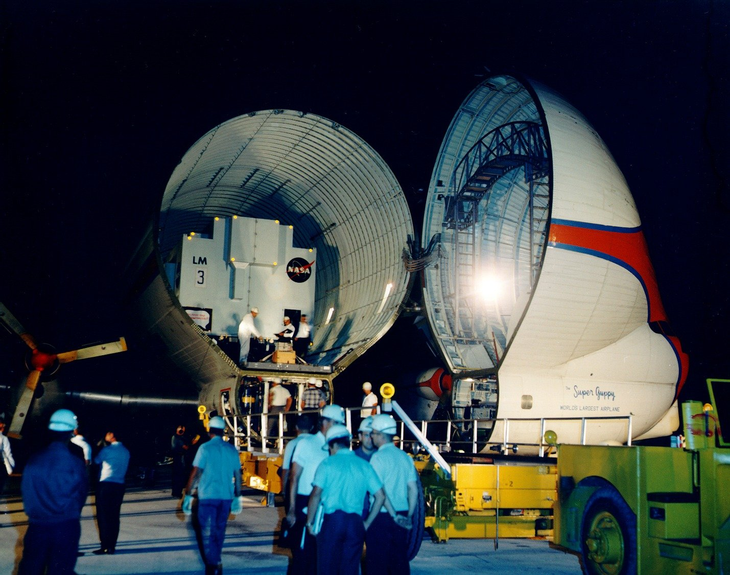 Lunar Module 3 arrives at Kennedy Space Center, packaged aboard the Aero Spacelines Super Guppy for the Apollo 9 mission.